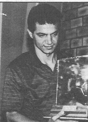 The Iraqi player, Hussein Saeed, receiving the Top Arab Goalscorer Award presented by the Al-Watan Al-Riyadhi Magazine in 1985